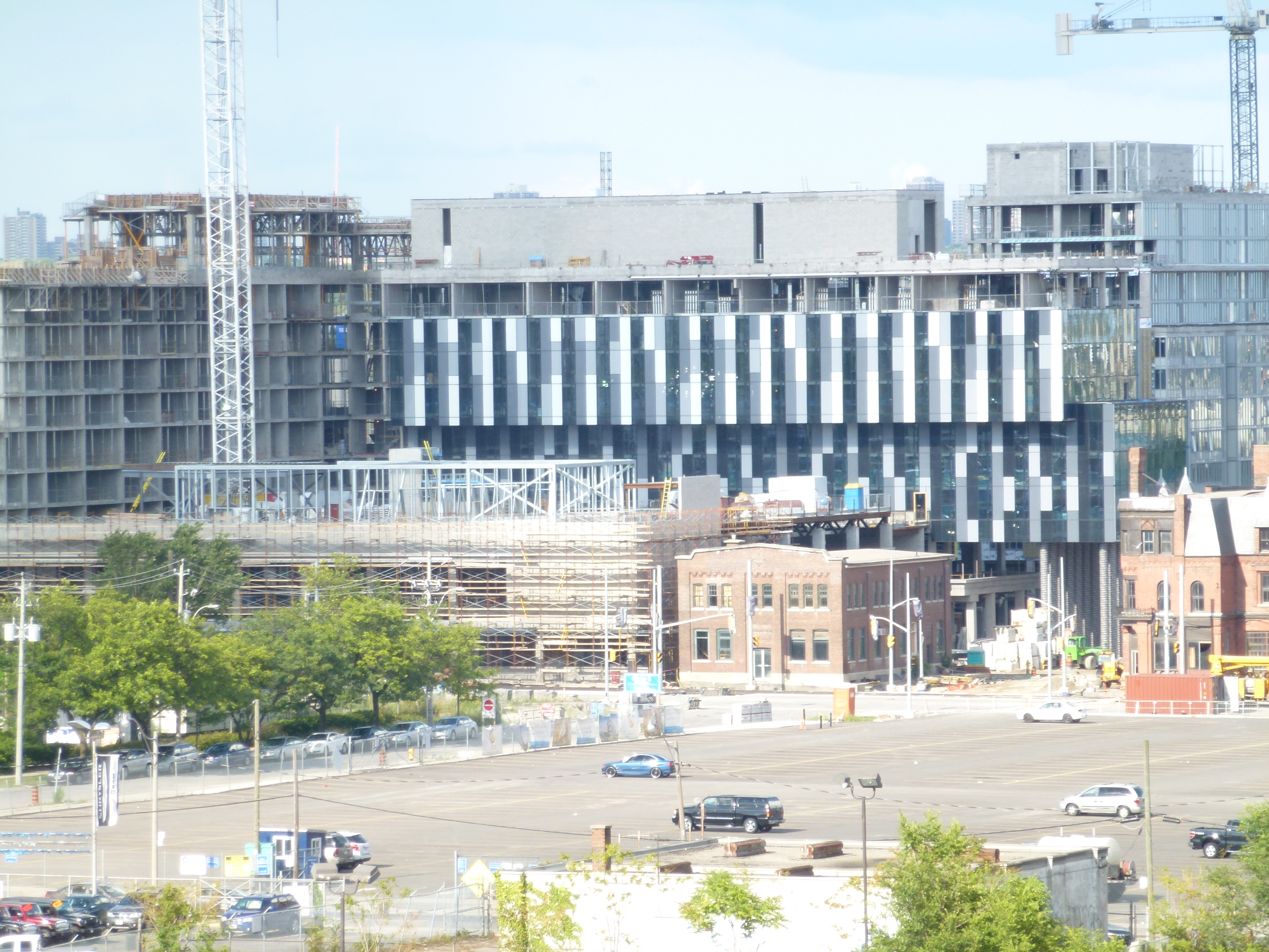 Old railway police building, overwhelmed by the new Athlete's Village